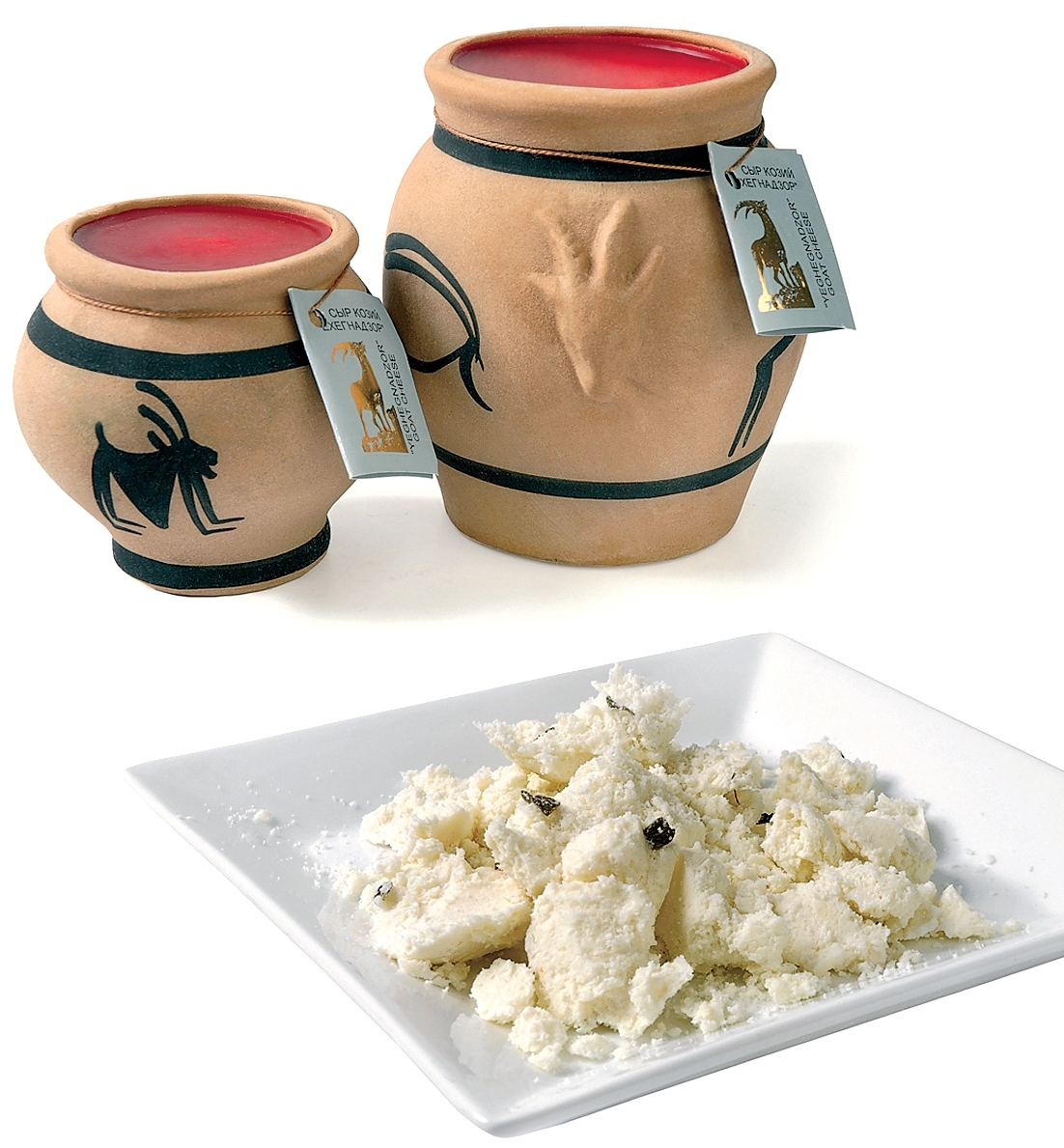 Photo by Zaven Khachikyan